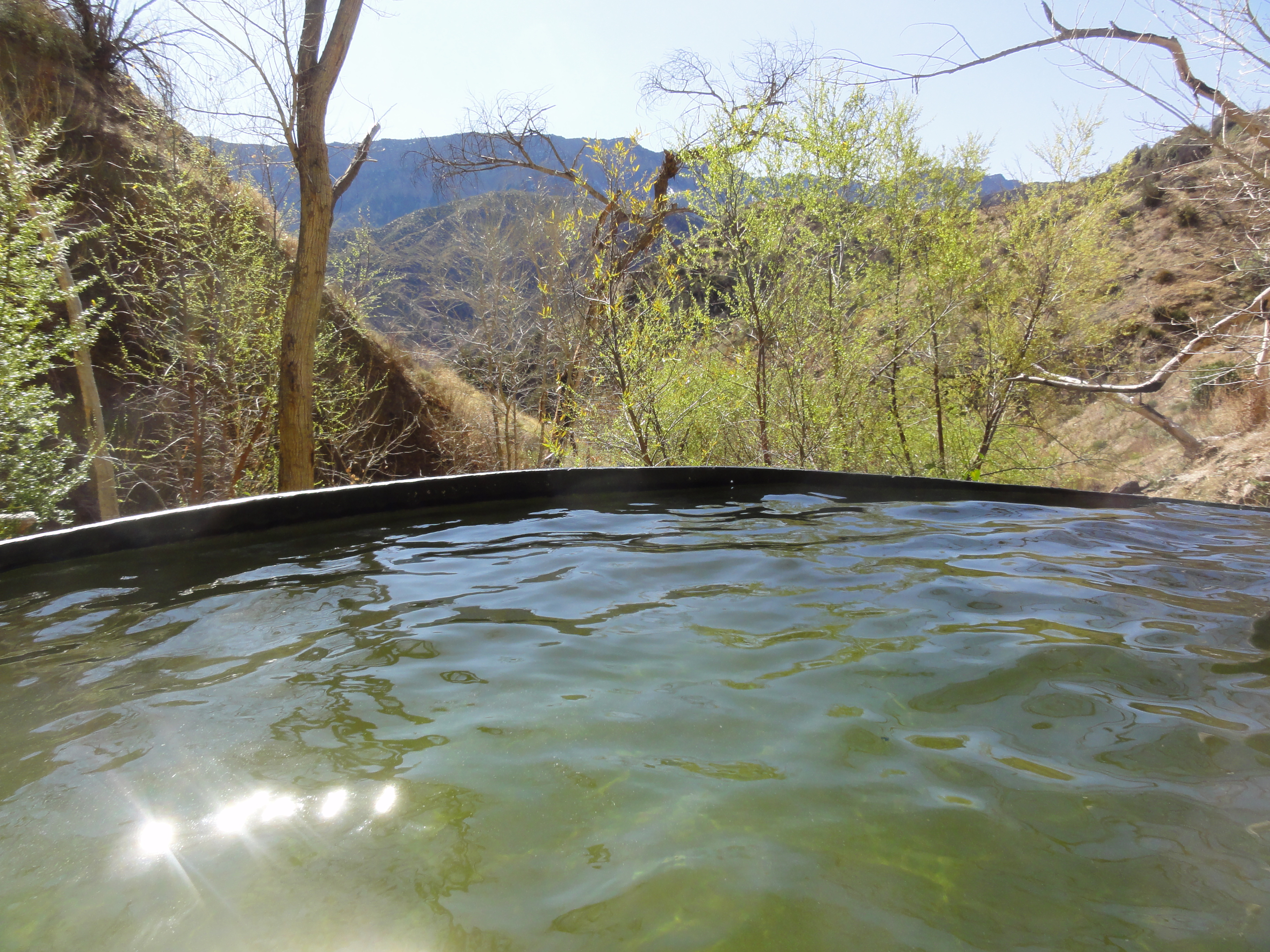 Willett Hot Spring in the Sespe Wilderness 02